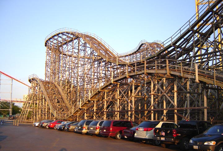 Ohio - Cedar Point - By:Mike Sharp.